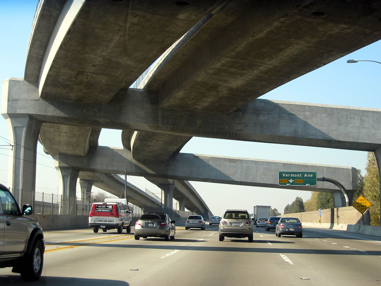 Grandiose LA freeways intersecting